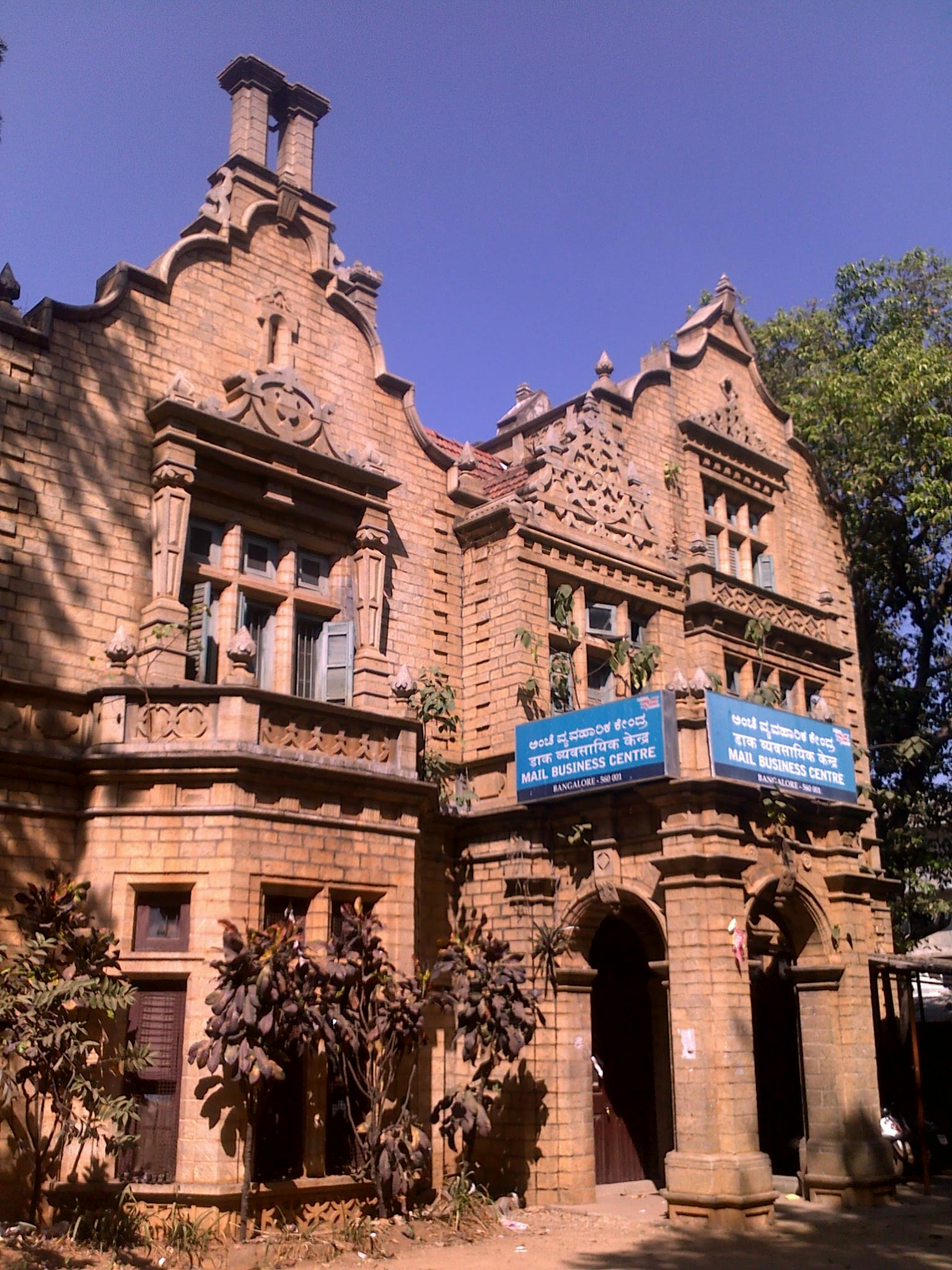 For sometime used as Bangalore's postal sorting office, built by descendants of Diwan Purnaiah of Mysore